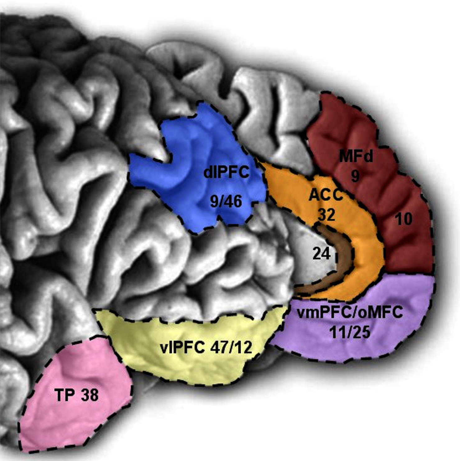 Medial view(right) and lateral view(left) of the PFC. ACC, anterior cingulate cortex; dlPFC, dorsolateral PFC; MFd, medial PFC; oMFC, orbitomedial PFC; TP, temporal pole; vlPFC, ventrolateral PFC; vmPFC, ventromedial PFC. (by uploader: I think there are mislabeling. Label "32" may be "32/24", and "24" may be "33")